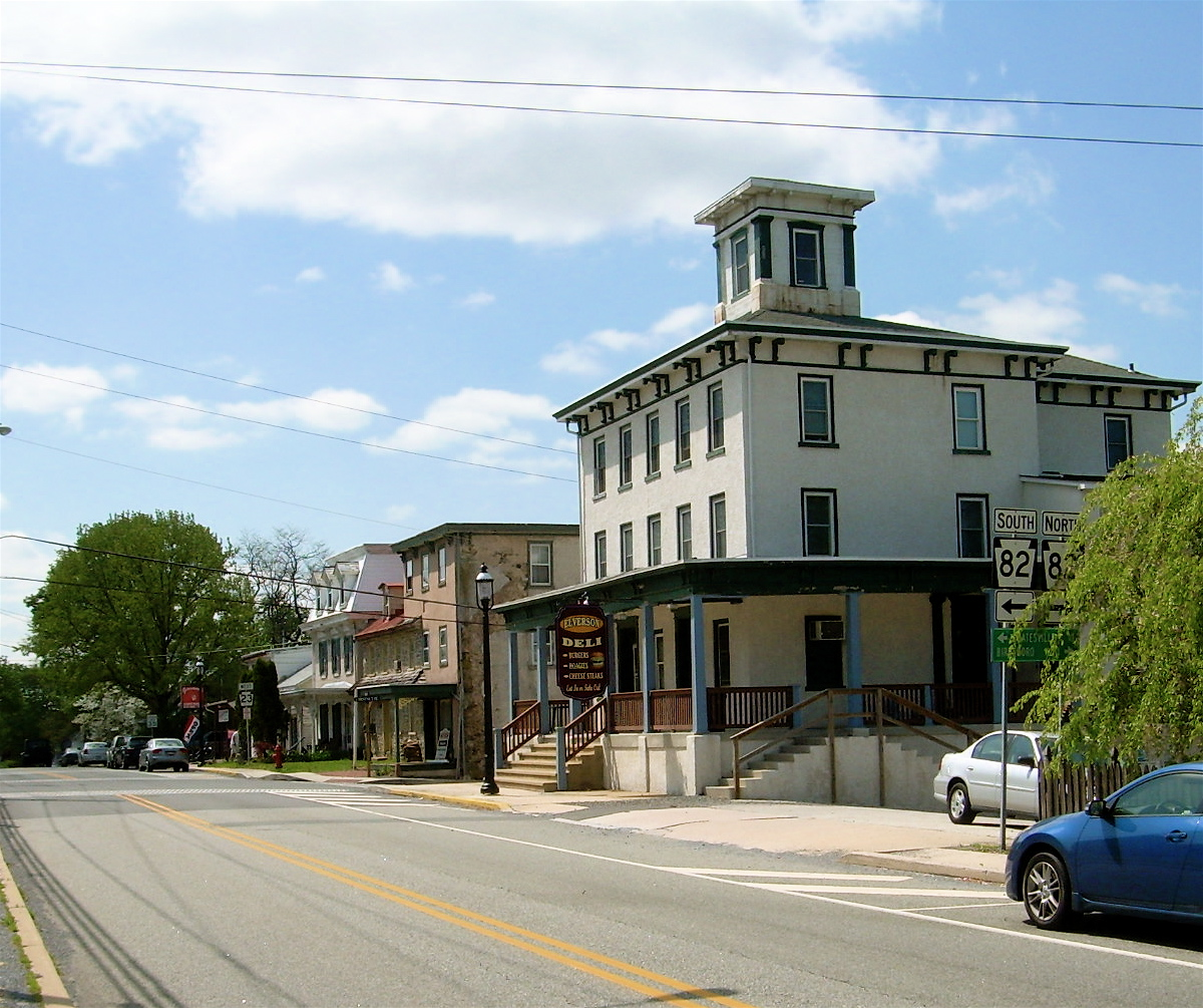 Willjay, taken by me. Elverson, Pennsylvania: Main Street (rt. 23) at Chestnut Street (Rt. 82).